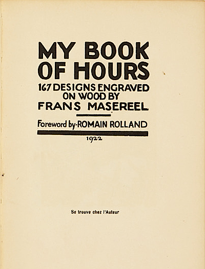 My Book of Hours: 167 designs engraved on woods by Frans Masereel : title page of the 1922 edition translated and printed by Romain Rolland.